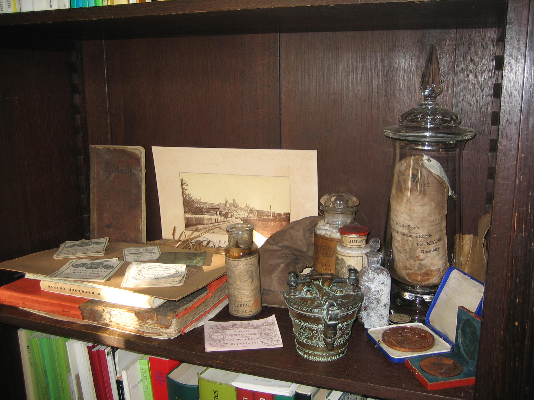 Memorial display cabinet of the first industrial quinine fabrication in Oppenheim.